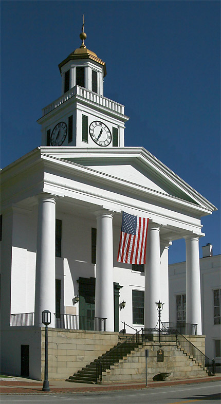 Taken by Greg Hume on Oct. 29, 2006. Composite of two shots stitched together.